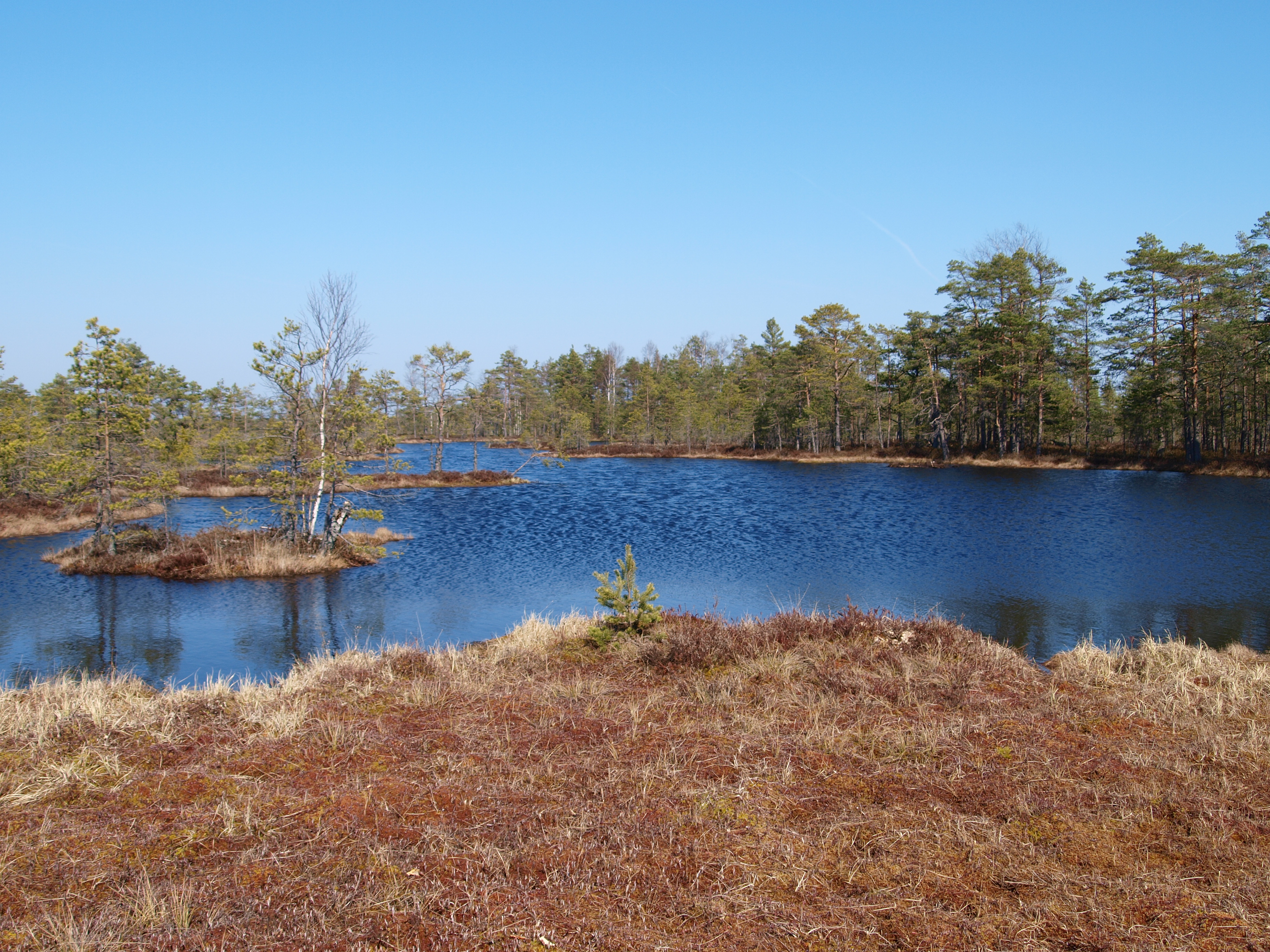 Tolkuse bog in south-western Estonia